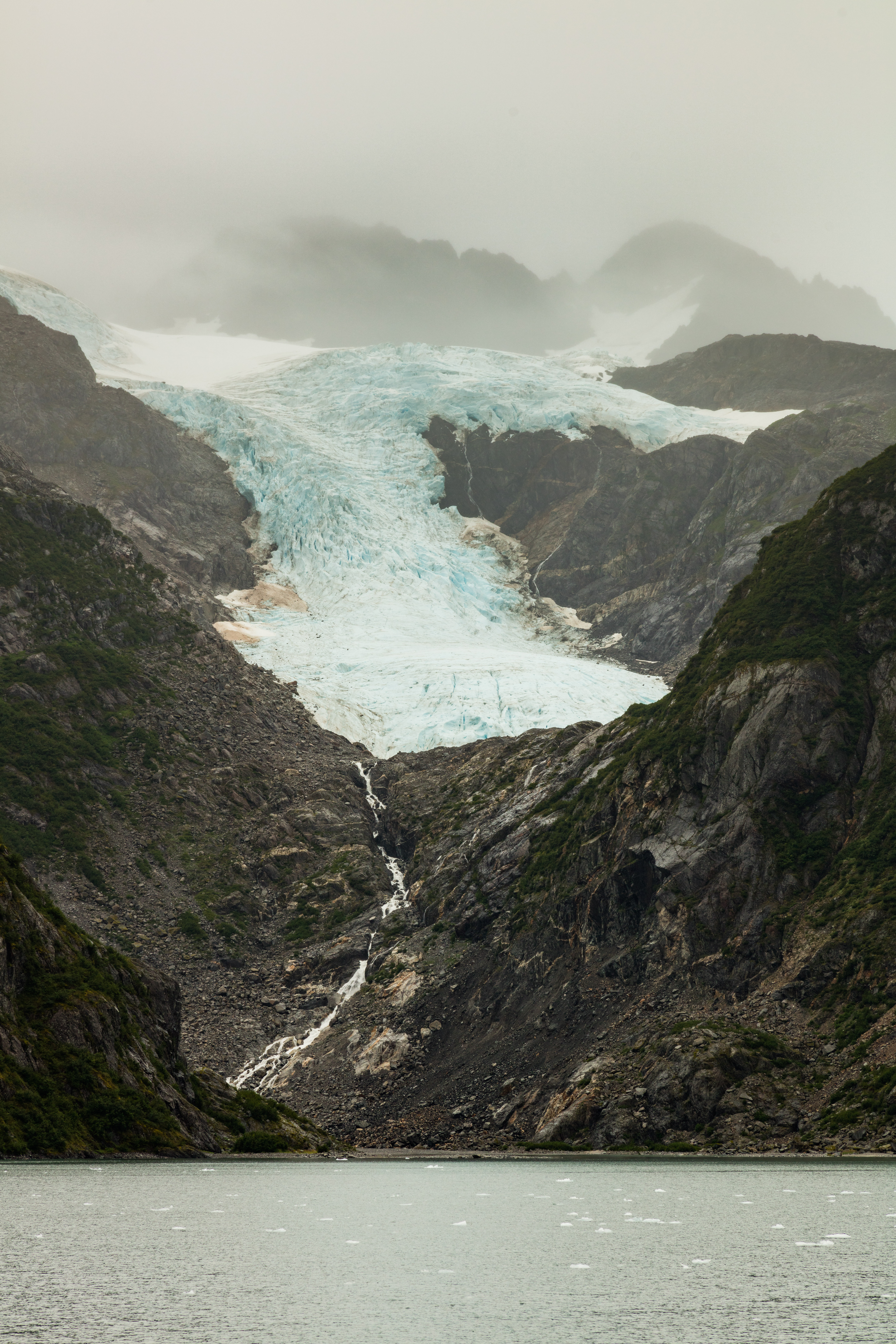 Aialik Bay, Seward, Alaska, United States